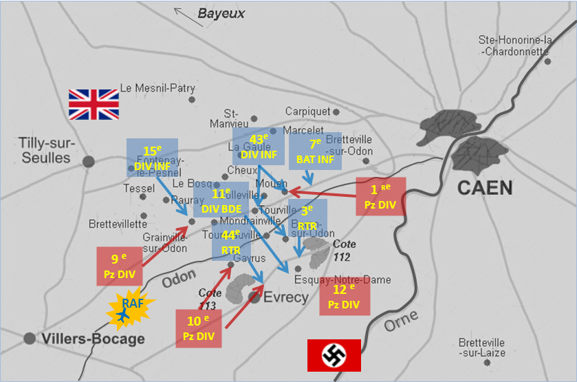 Operation Epsom main movements on 1944, June 29